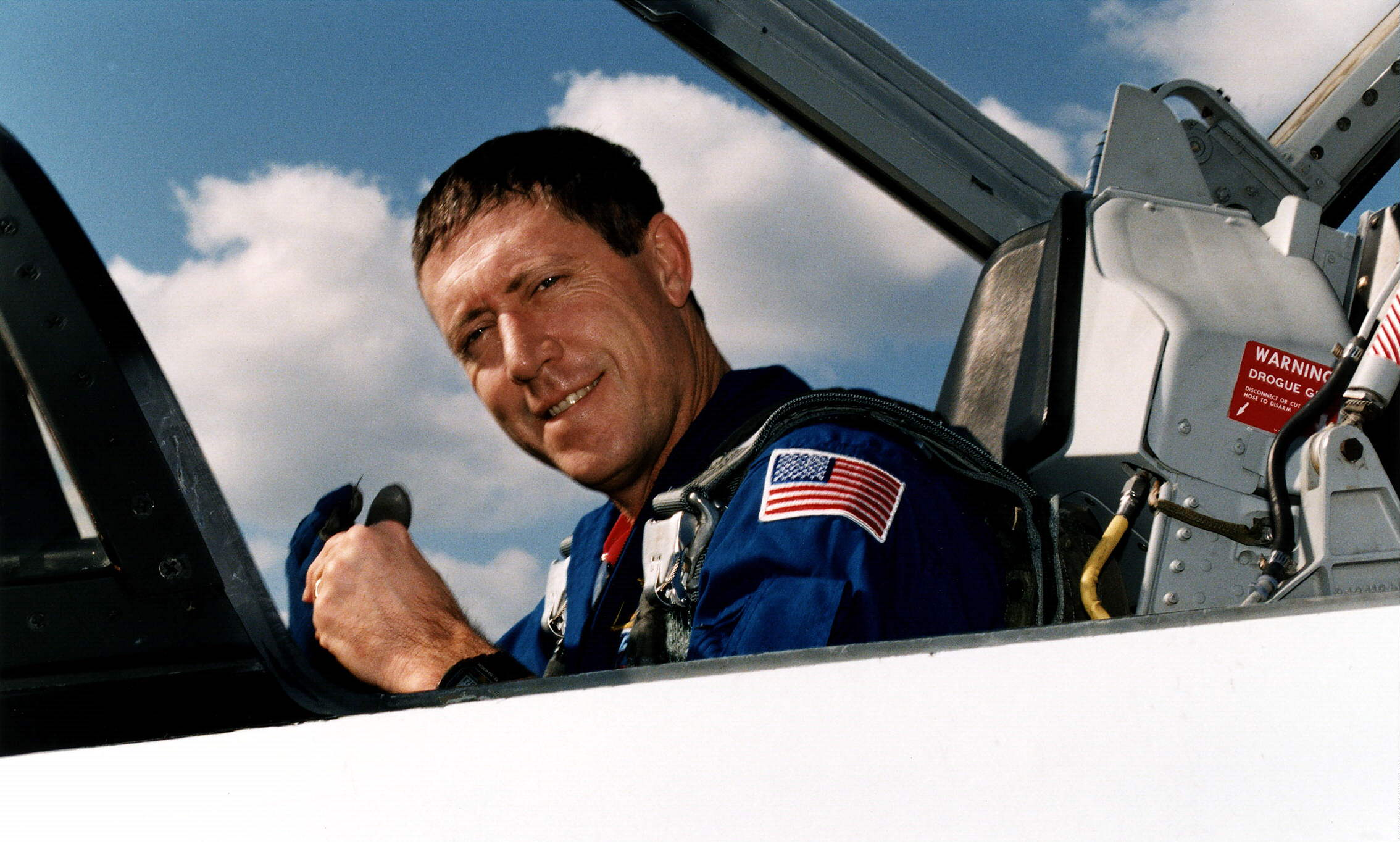 STS-81 Mission Commander Michael A. Baker arrives at KSC's Shuttle Landing Facility in his NASA T-38 jet. He and five other crew members will participate in the Terminal Countdown Demonstration Test (TCDT), a dress rehearsal for the planned Jan. 12 launch. STS-81 will be the fifth Shuttle-Mir docking. During the flight, Mission Specialist J.M. "Jerry" Linenger will transfer to the Russian Mir Space Station for an extended stay, replacing astronaut John E. Blaha, who will return to Earth on the Space Shuttle orbiter Atlantis at the conclusion of the scheduled nine-day STS-81 mission. (Photo Release Date: 12/15/96)